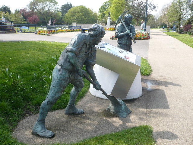 Sculptures of navvies by the Royal Military Canal Navvies or navigators were the workmen who travelled the country to build the Royal Military Canal at the start of the 19th century. At its height, 700 navvies were employed together with the soldiers of the Royal Staffordshire Corps.